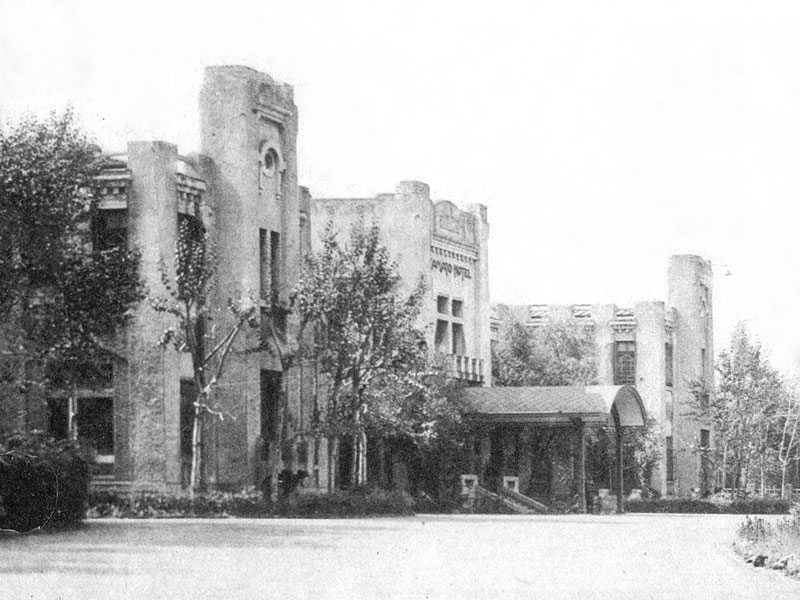 Yamato Hotel Changchun